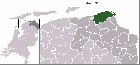 Locator map of Dutch municipalities in Groningen (LocatieEemsmond.png)